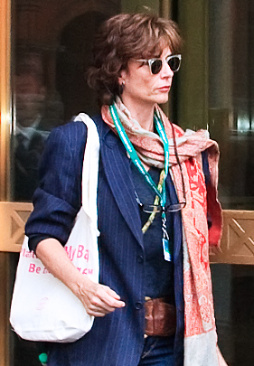 Rachel Ward at the 2009 Toronto International Film Festival.